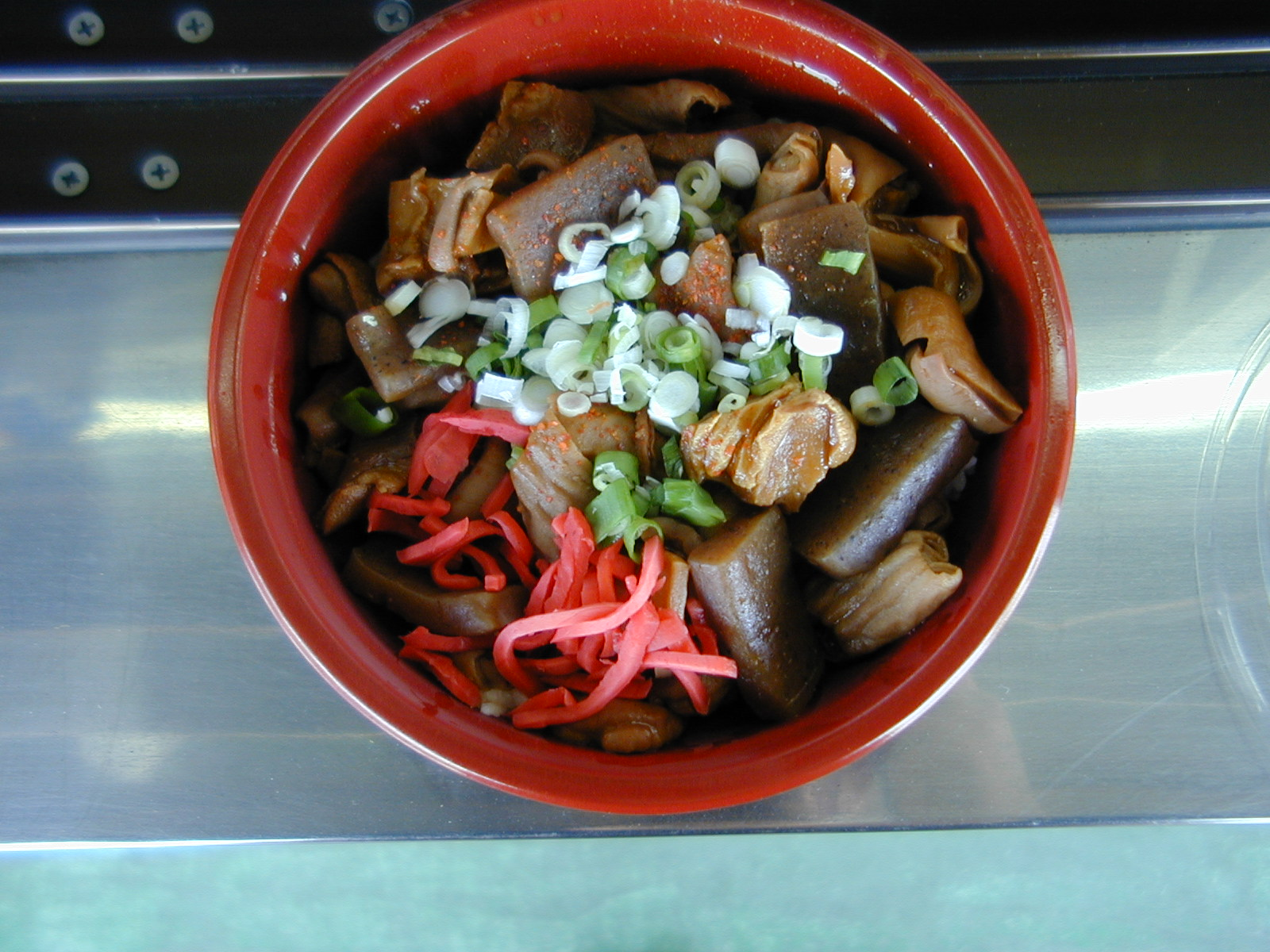 Doteni the tripe stew.(Nagoya, Japan)